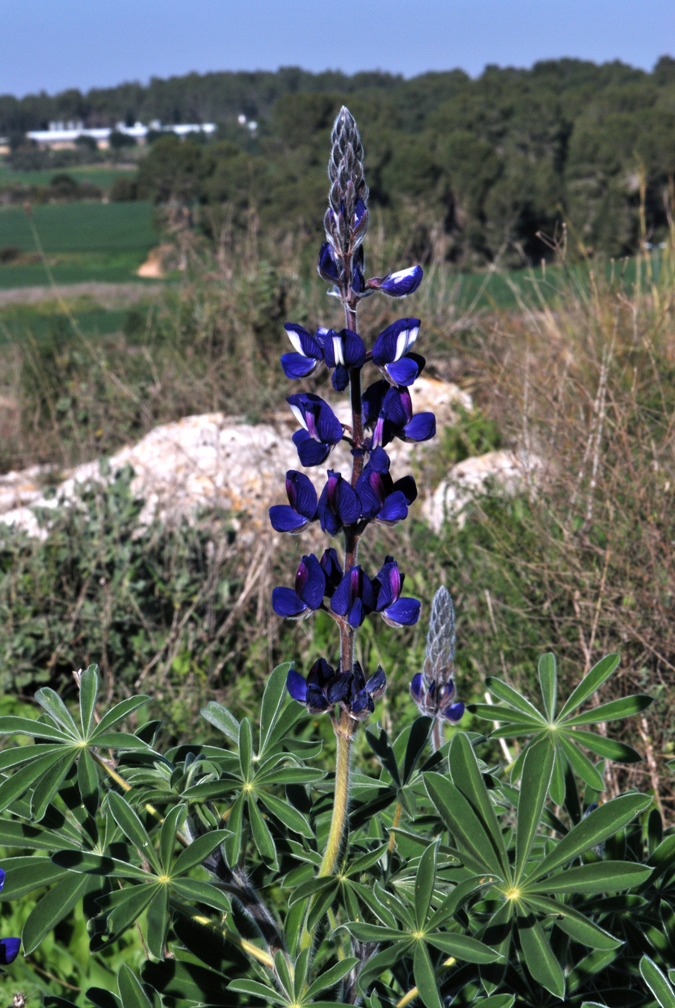 Lupinus pilosus L., Judean Foothills, Israel, January 27, 2010.